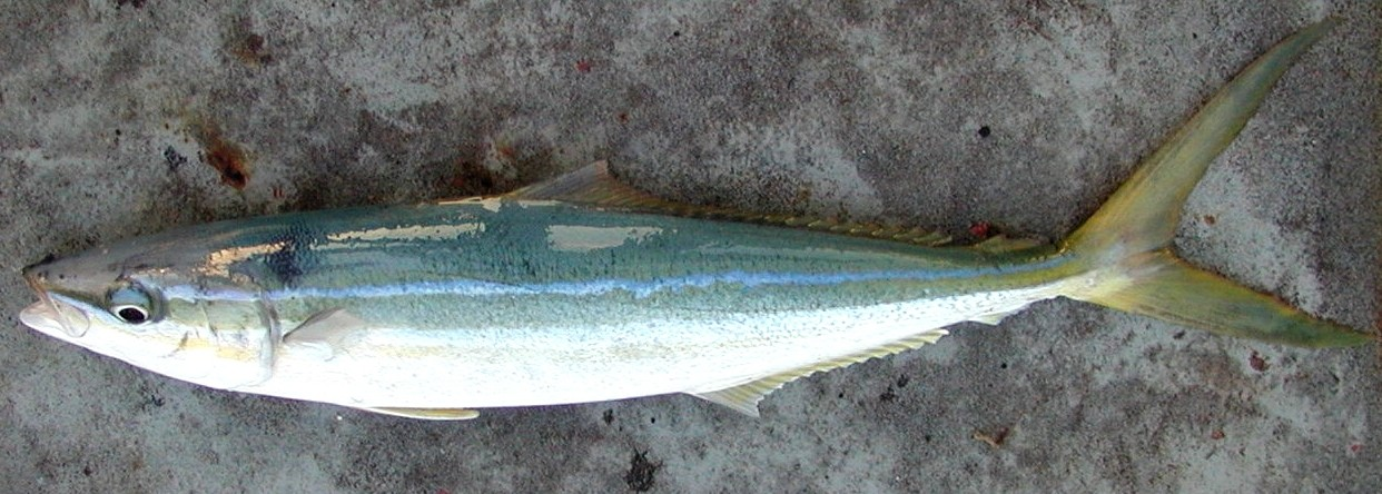 Rainbow runner Image ID: ship0486, NOAA's Fleet Then and Now - Sailing for Science Collection Location: Clipperton Island Photo Date: 2000 Fall Photographer: Shannon Rankin, NMFS, SWFSC